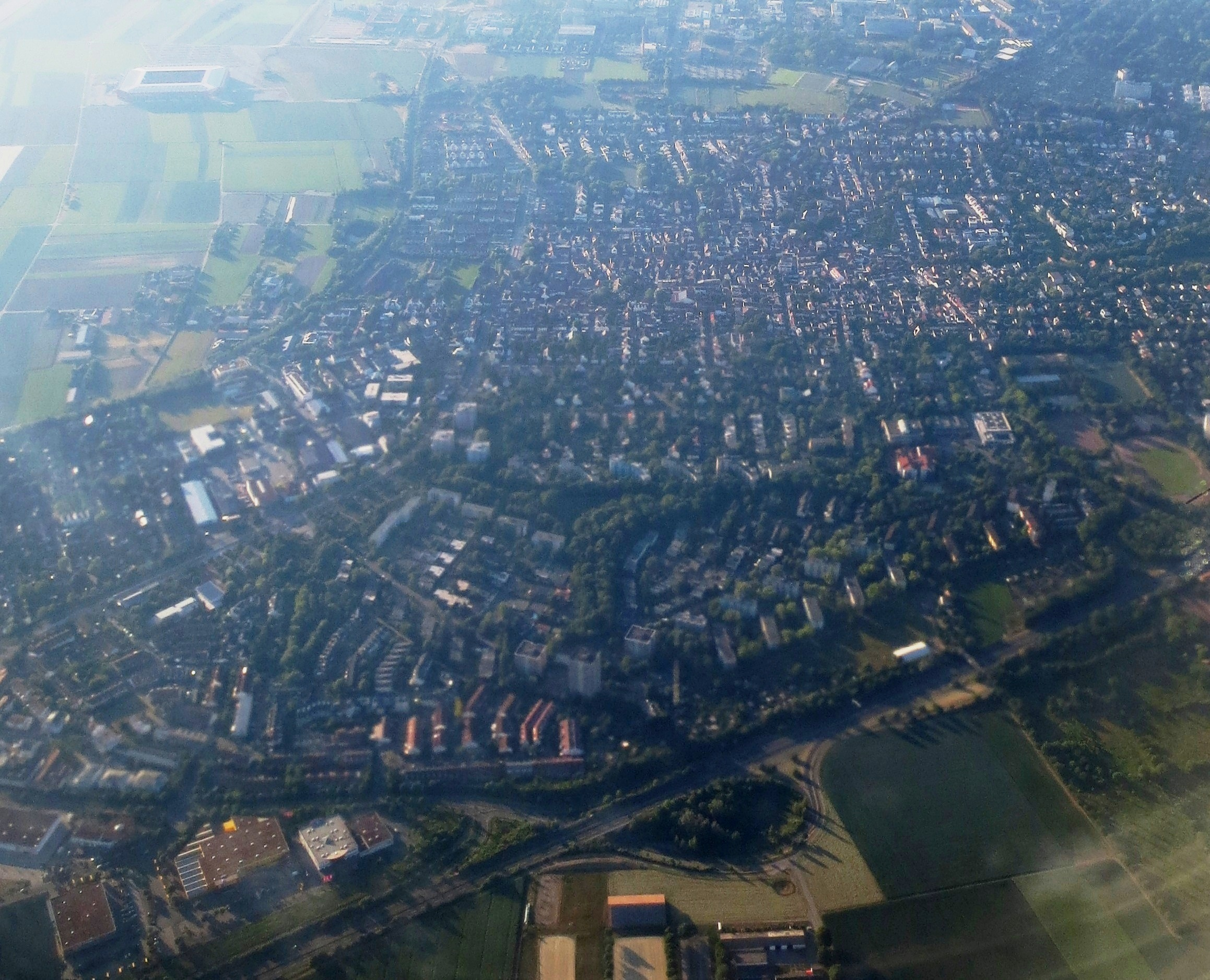 Aerial view over western suburbs of Mainz, Germany.